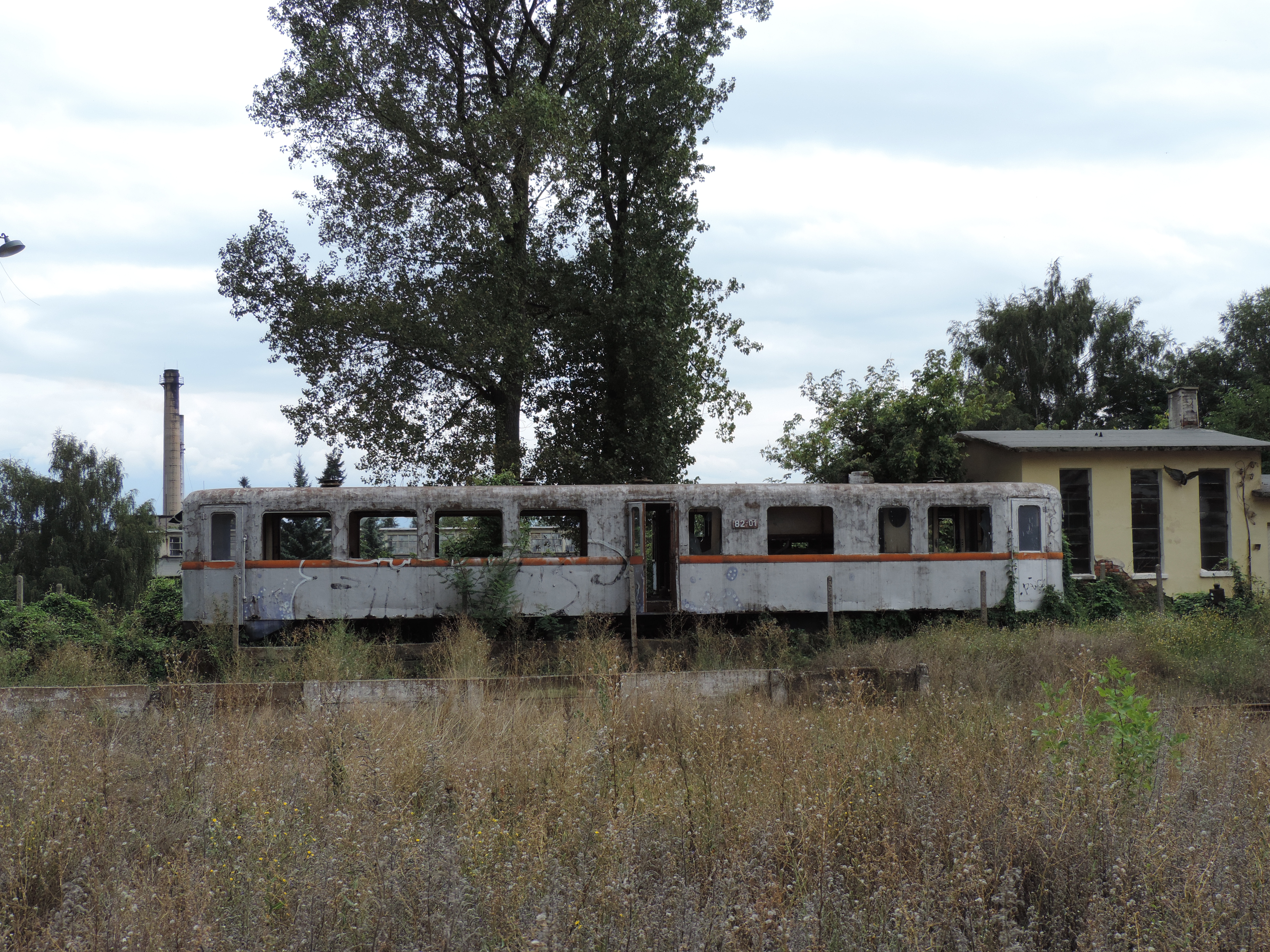 Diesel railcar "Ganz" 82.01, Bansko, Bulgaria, 2014